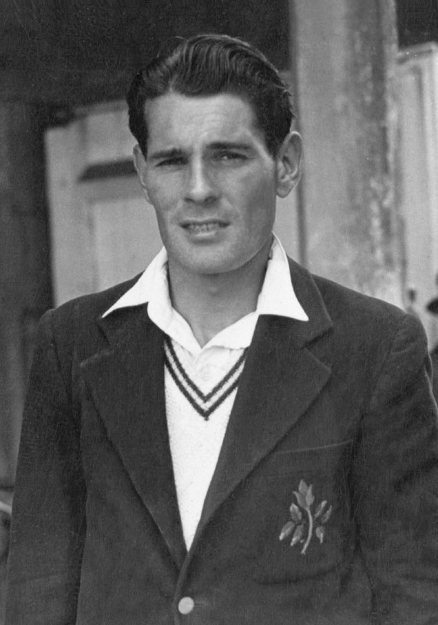 Ikin, Lancashire County cricketer.